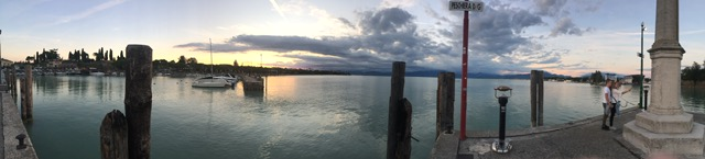 This is a panoramic picture of Lake Garda and the Marina in Peschiera del Garda, featuring a setting sun.